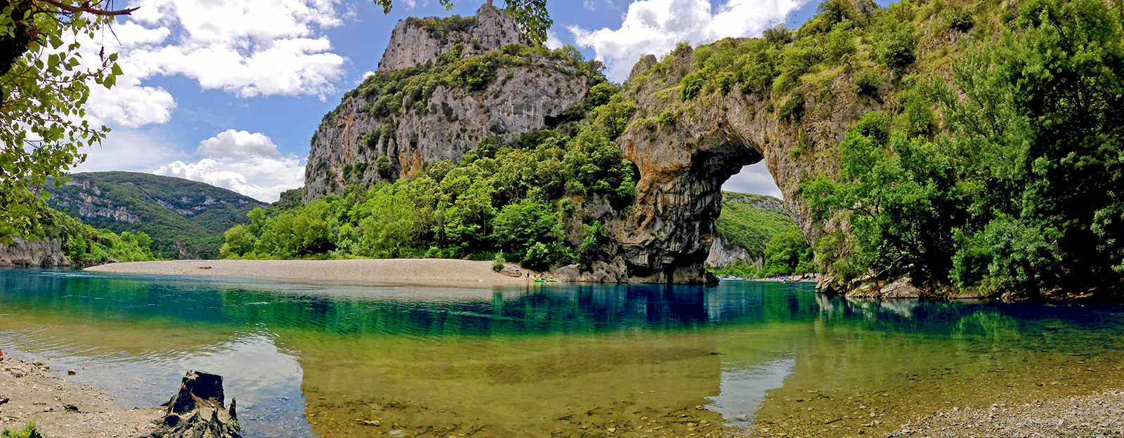 Pont d'Arc, Ardèche, France